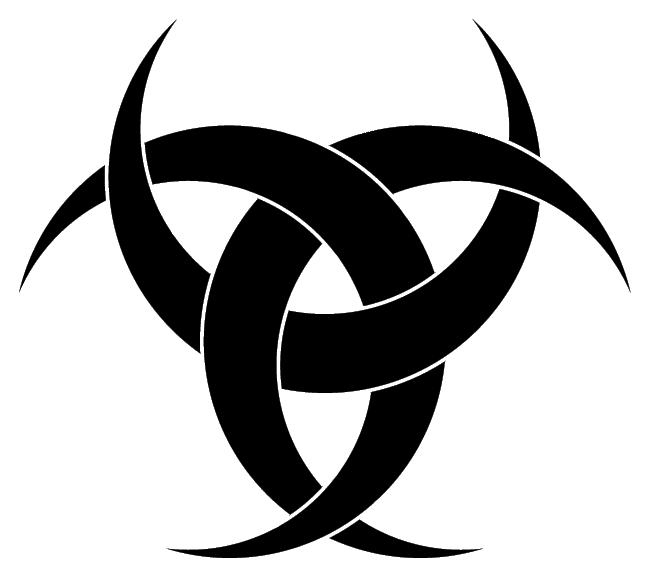 Three interlaced crescents Diane de Poitiers emblem (black filled crescents on transparent background).